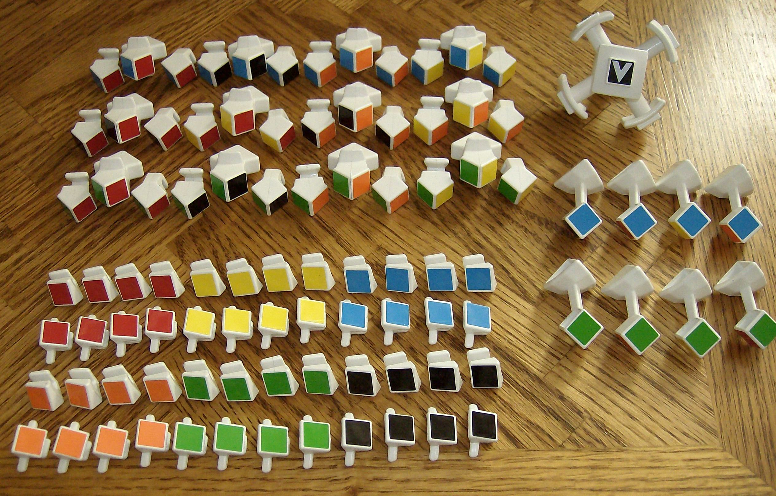 Disassembled V-Cube 5. A comparison of these pieces to the corresponding pieces of the Eastsheen and Rubik's versions can be seen here.